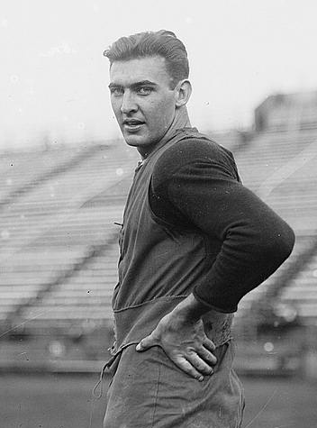 Bain News Service, publisher. Lefty Flynn aka Maurice Bennett Flynn, taken between 1910 and 1915 1 negative : glass ; 5 x 7 in. or smaller. Notes: Title from unverified data provided by the Bain News Service on the negatives or caption cards. Forms part of: George Grantham Bain Collection (Library of Congress). Subjects: Football Format: Glass negatives. Repository: Library of Congress, Prints and Photographs Division, Washington, D.C. 20540 USA, General information about the Bain Collection is available at Persistent URL: Call Number: LC-B2- 2459-15